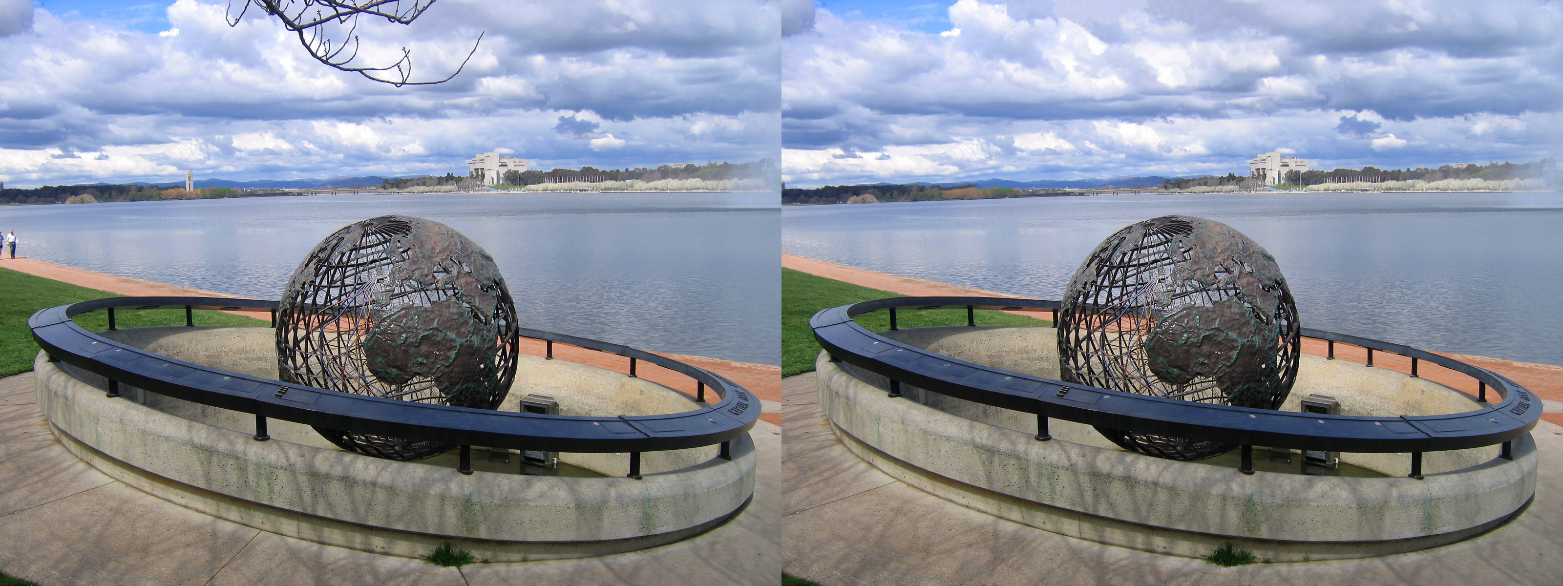 Captain James Cook Memorial Globe and High Court, Canberra